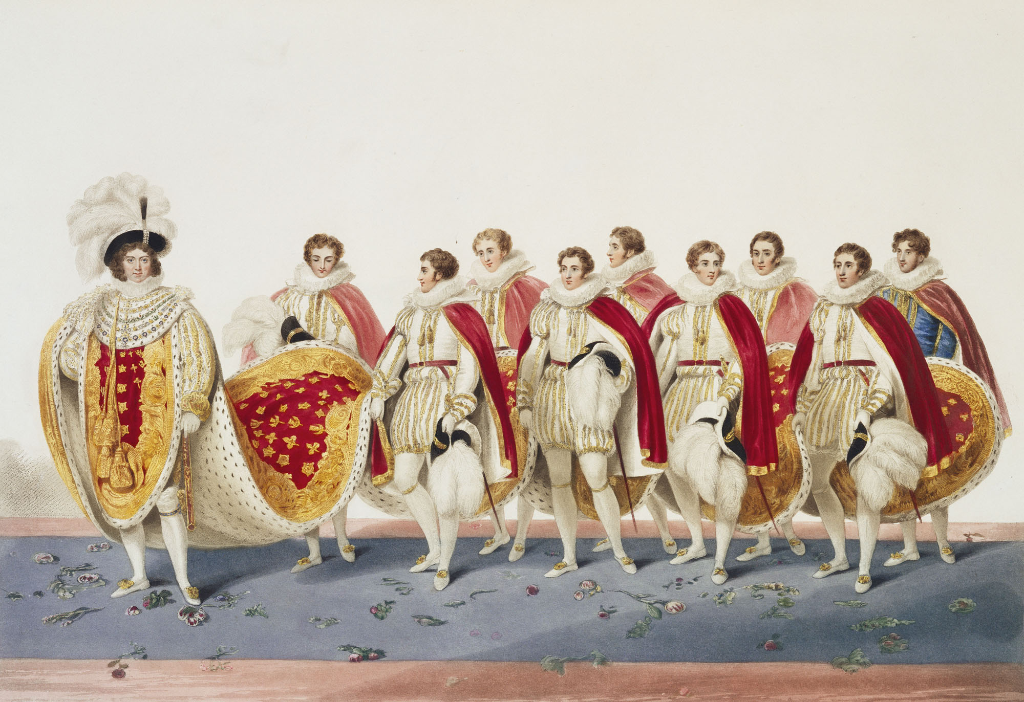 Print showing George IV of the United Kingdom with his train borne by eight sons of Peers and the Master of the Robes at his Coronation in 1821. The painting, commissioned by the king, was started by Francis and James Stephanoff and finished by Edward Scriven.